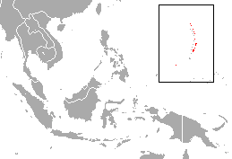 Mariana Fruit Bat (Pteropus mariannus) range